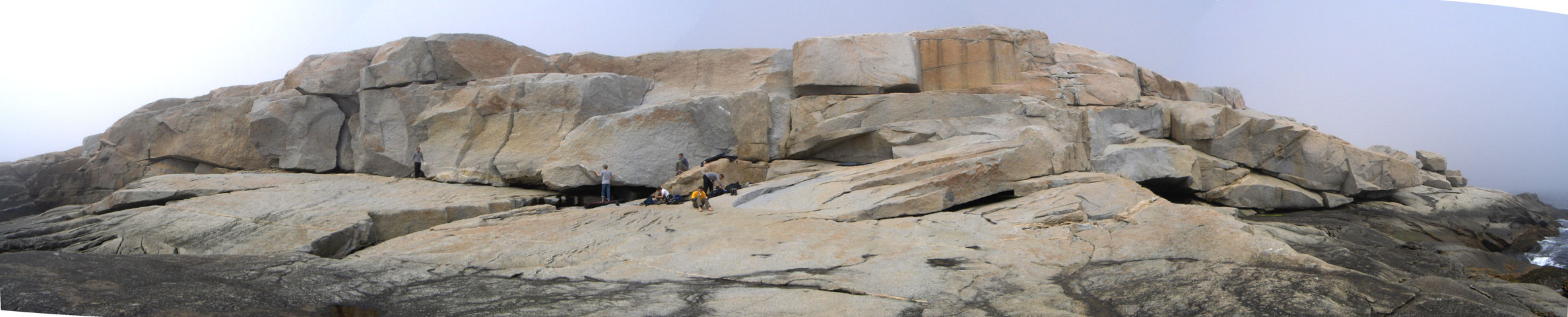 A panoramic photo taken by David Quinn of Dover Island, Nova Scotia, Canada. Summer of 2005.